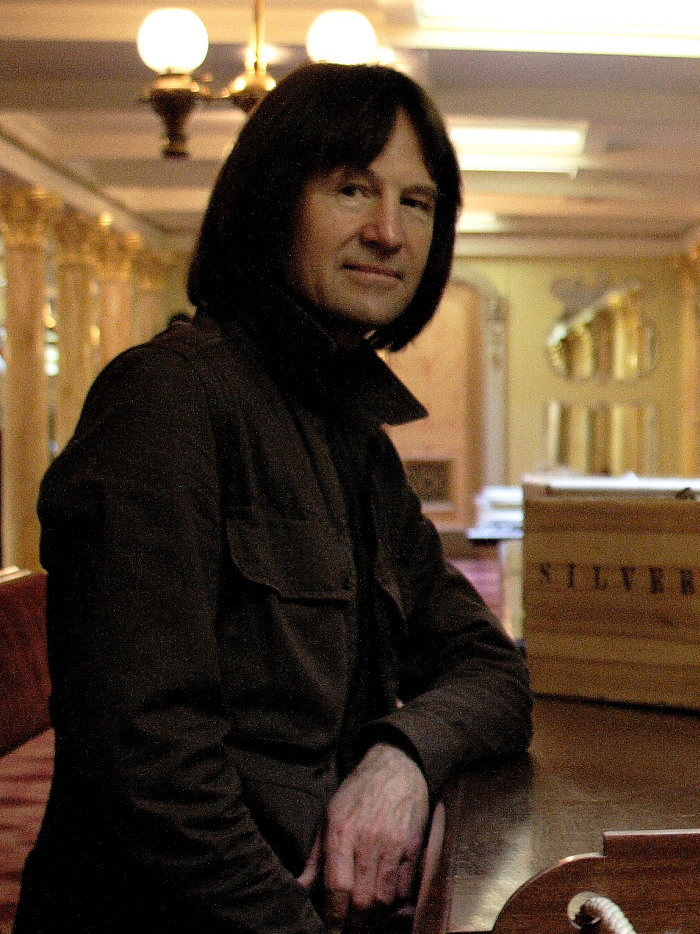 Left-to-right: Dave Gregory, Greg Spawton, Andy Poole, David Longdon